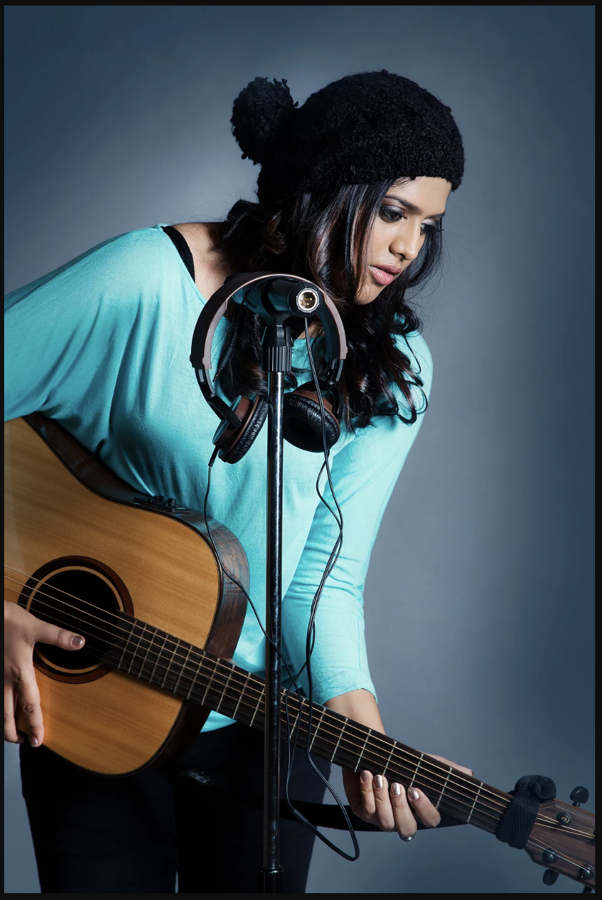 Surabhi Dashputra - Singer and Songwriter Based in UK